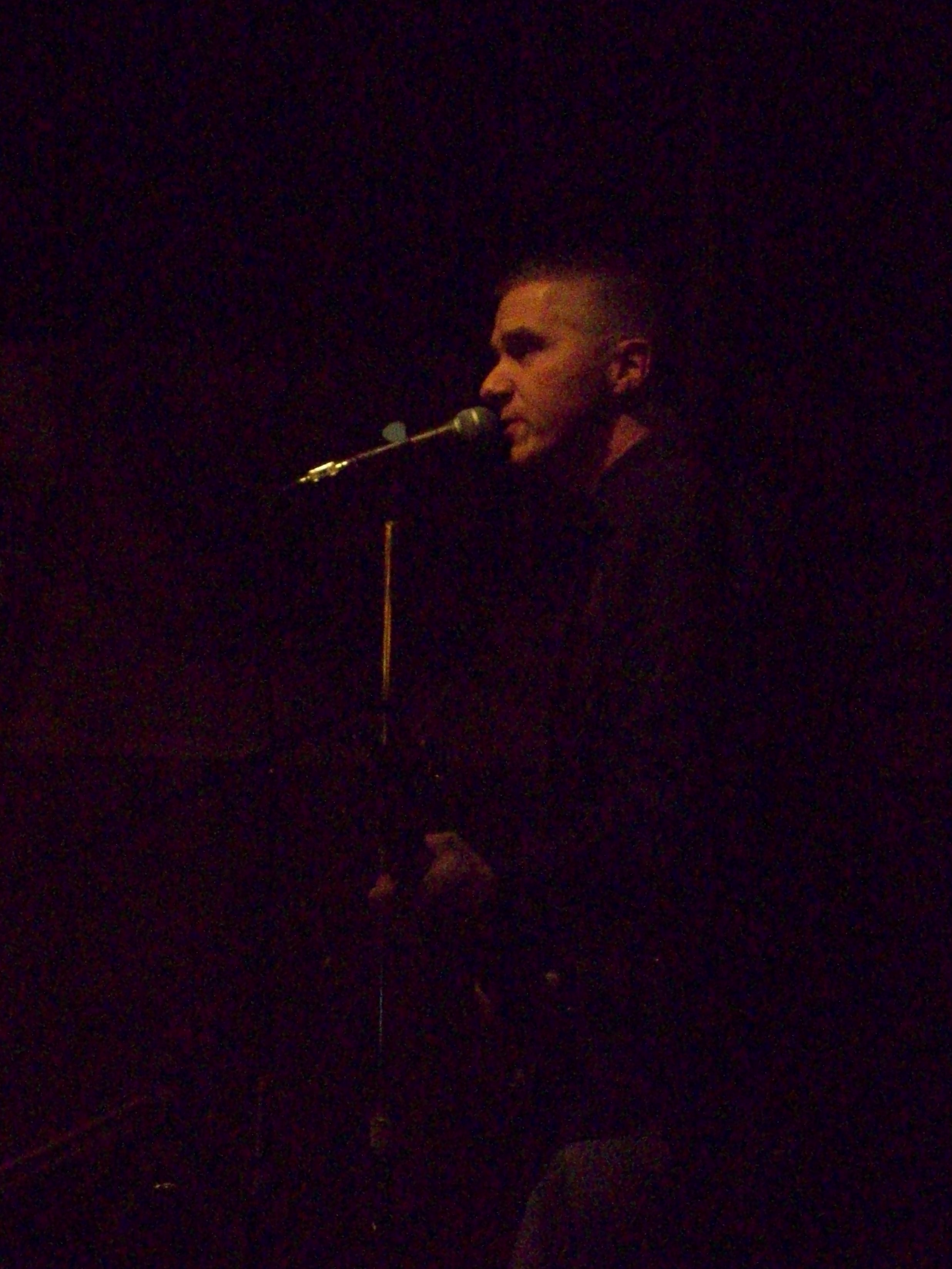 Jack McTamney playing live in 2009